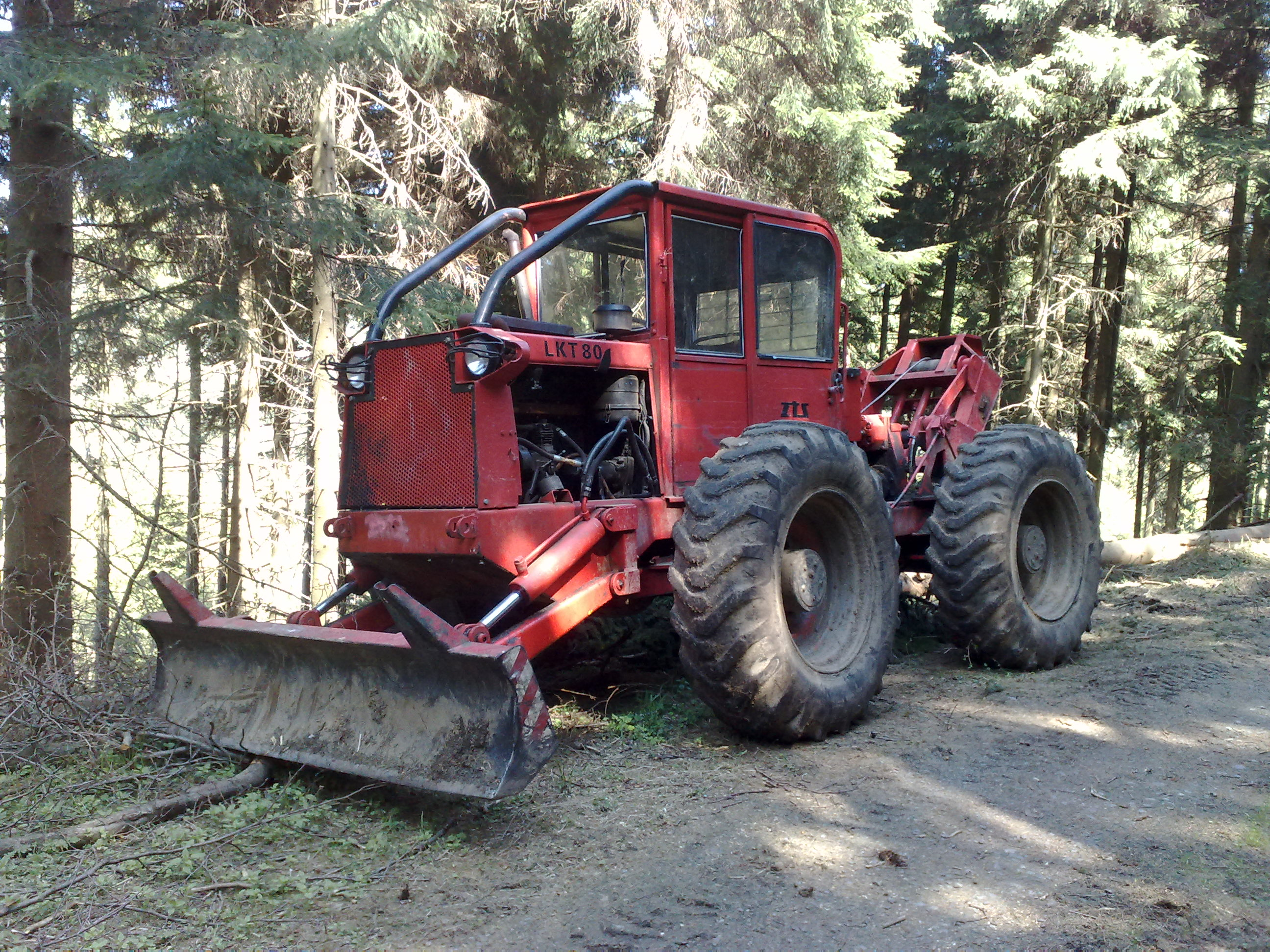 LKT 80 skidder near the Fláje Reservoir, Czech Republic